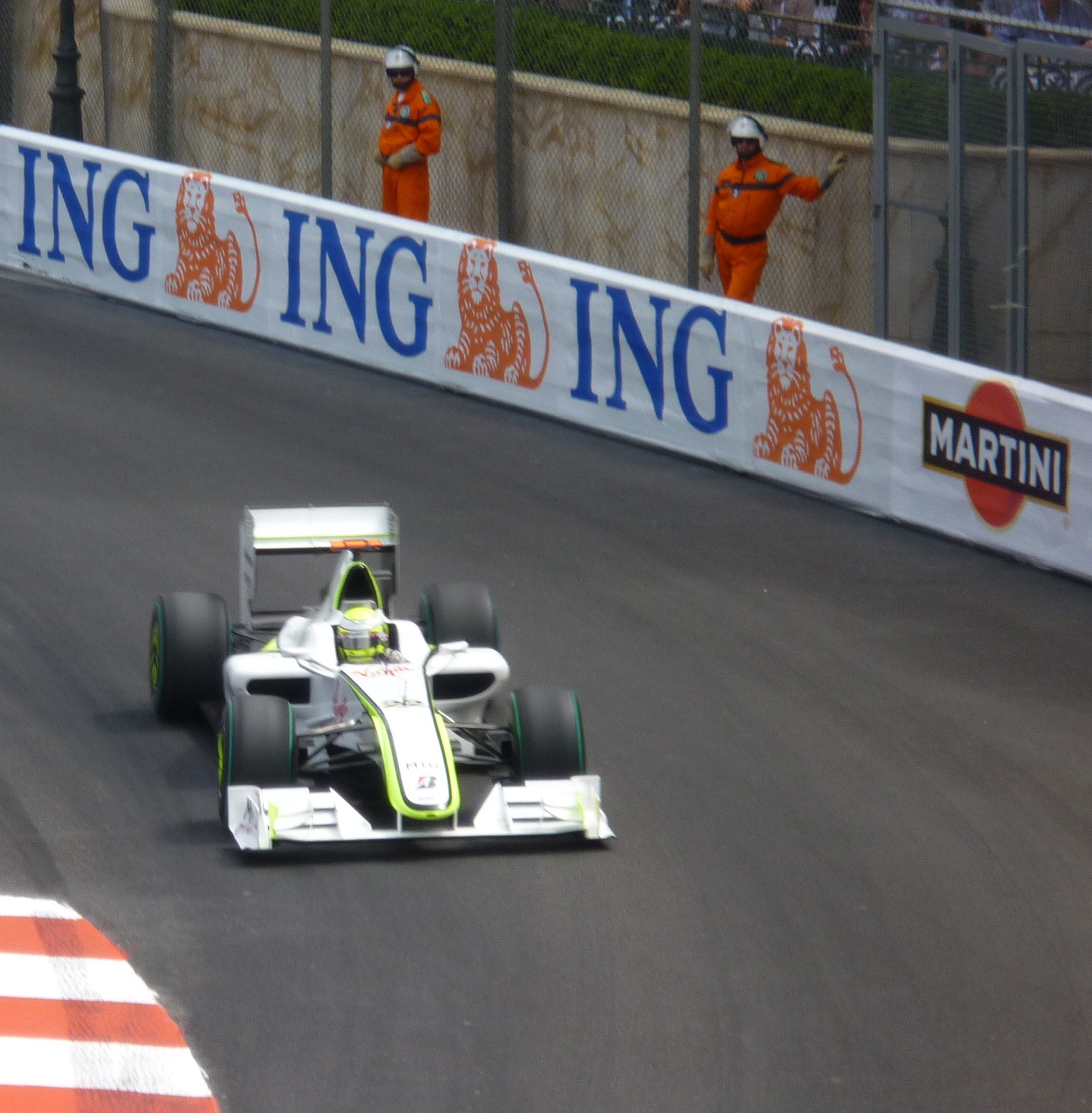 Jenson Button driving for Brawn GP at the 2009 Monaco Grand Prix.